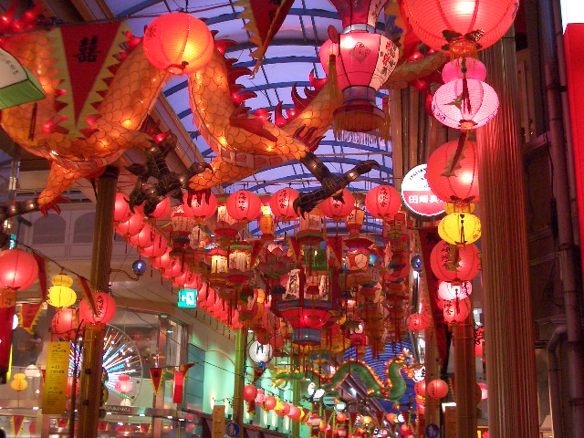 2004 Lantern Festival in Nagasaki, Japan - Lanterns & Dragon